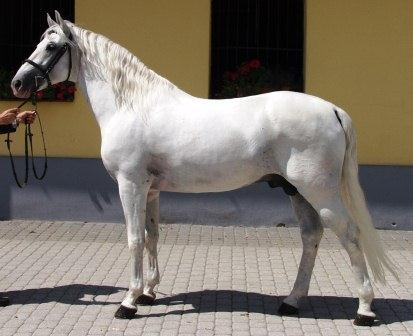 Lipizzaner stallion in the Slovakian National Stud Topolcianky, modern typed